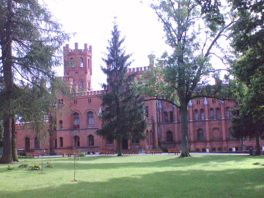 Palace in Sorkwity, Poland